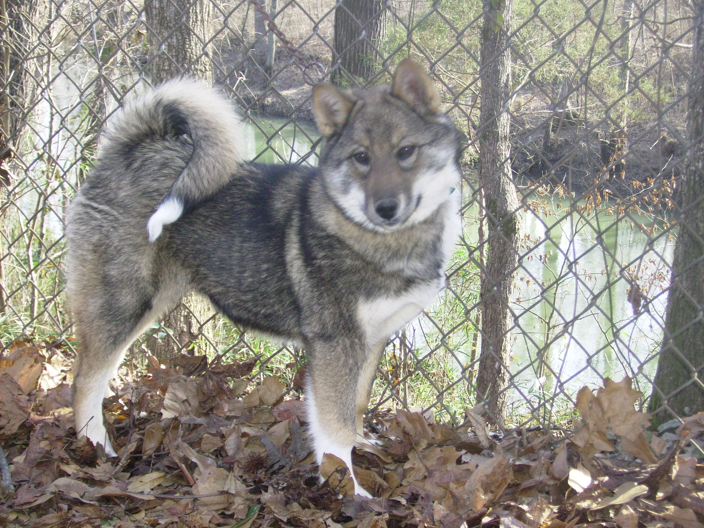 This is a 4 month old West Siberian Laika female pup. It is at this stage when a WSL pups unique natural hunting instincts become evident. Other information WSL pups start hunting naturally simply by taking them to areas where game is present and allowing them to run freely.